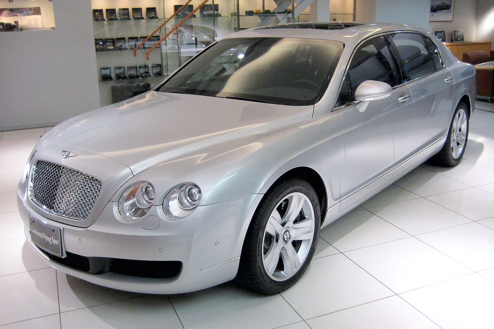 Bentley Continental Flying Spur in Cornes Aoyama Showroom